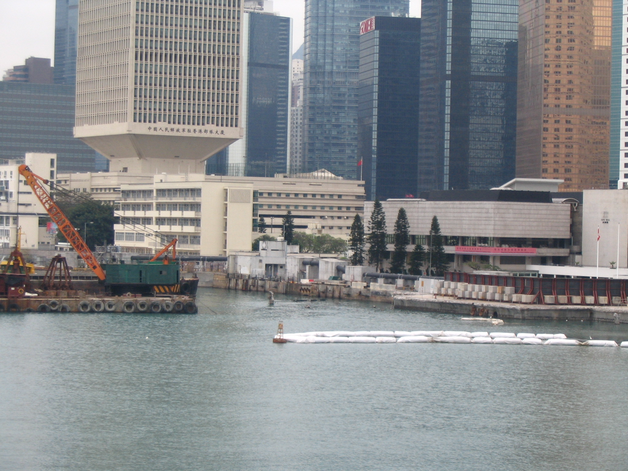 Photo of demolished Queen's Pier